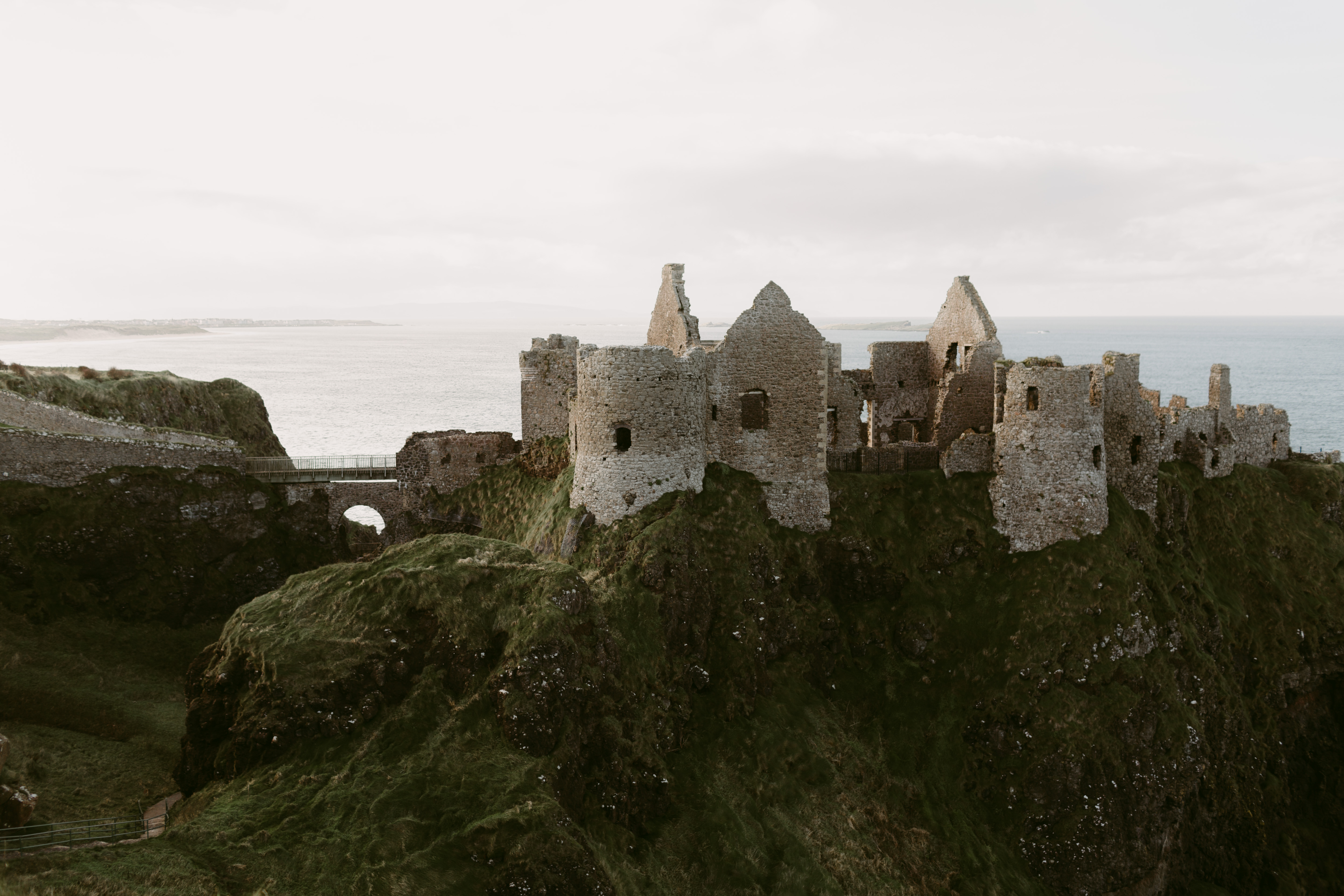 A photo of Dunluce Castle in County Antrim, Northern Ireland.